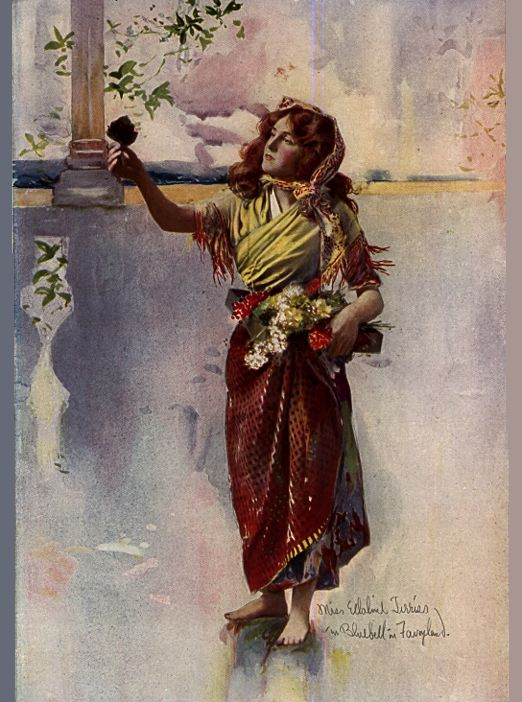 Drawing of Ellaline Terriss in Bluebell in Fairyland, from a book entitled Players of the Day, published in London by George Newnes (1851–1910)